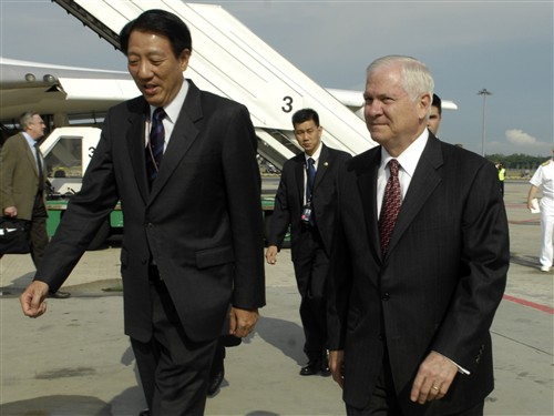 Teo Chee Hean and Robert Gates.